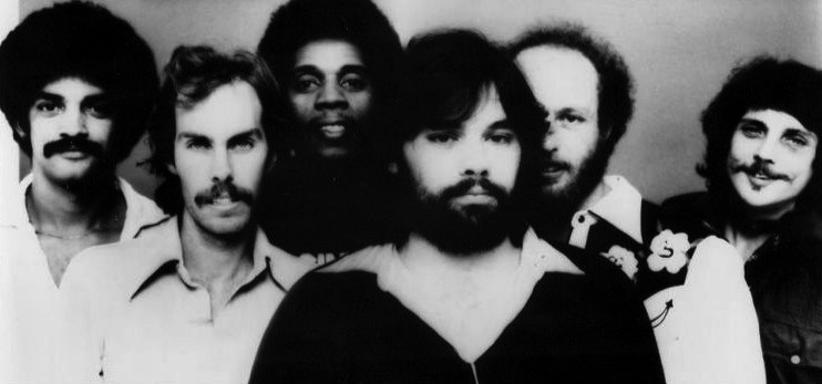 Publicity photo of the band Little Feat.